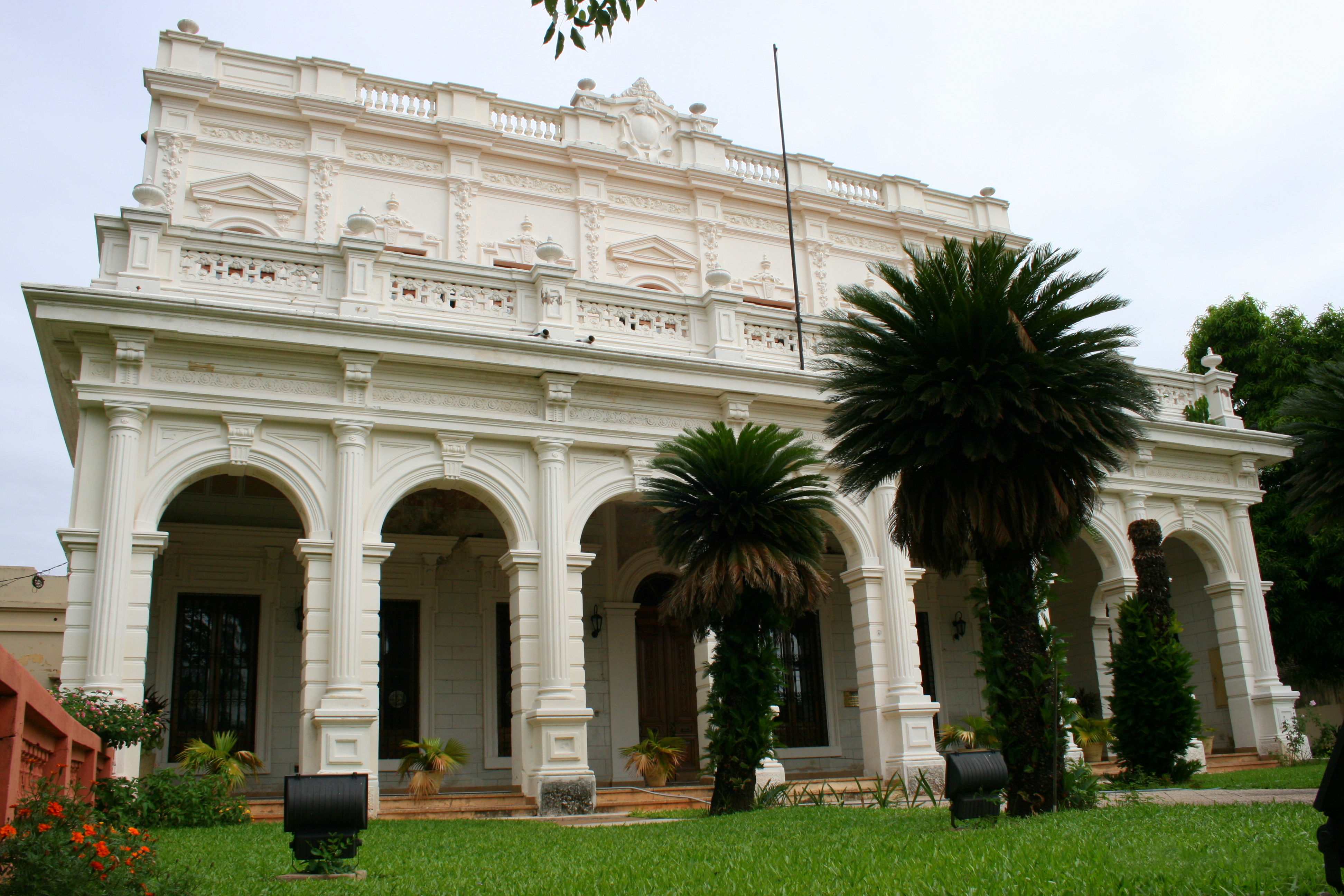 Universidad Nacional de Asunción Rectoría